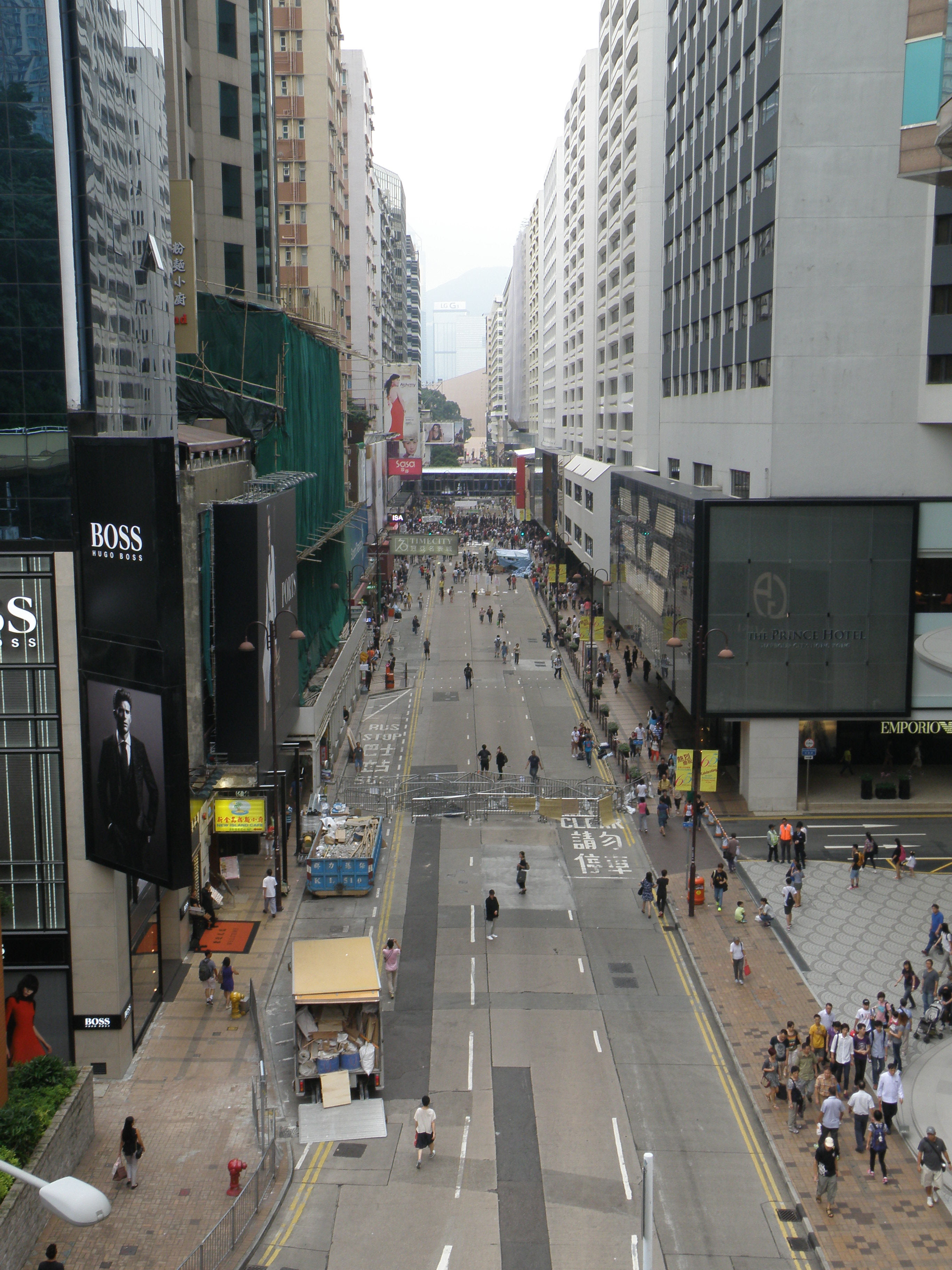 Occupy Central Participators in the junction of Canton Road and Haiphong Road, Tsim Sha Tsui, Hong Kong.